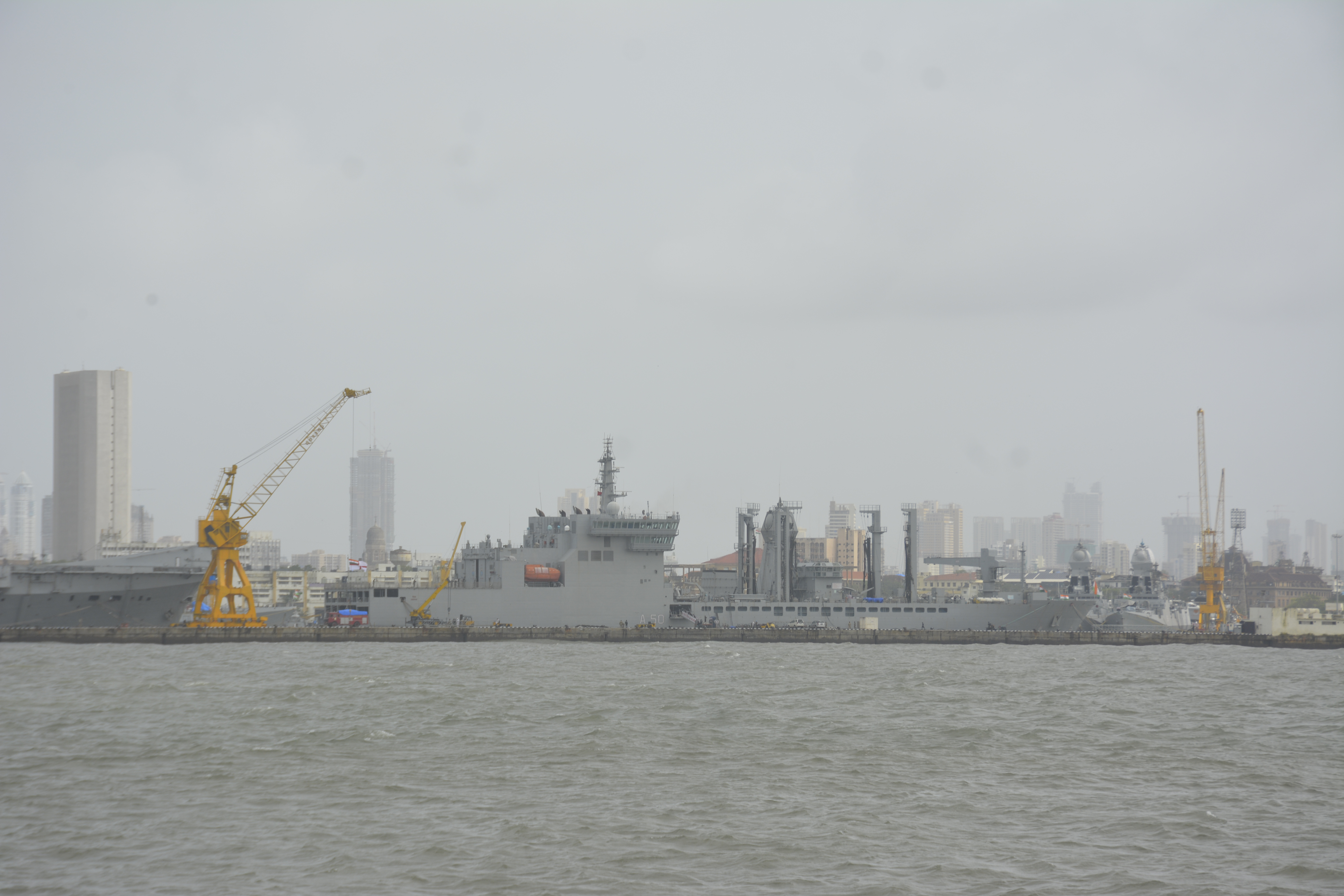 Fleet tanker of Indian Navy, INS Deepak docked at Mumbai Naval Docks